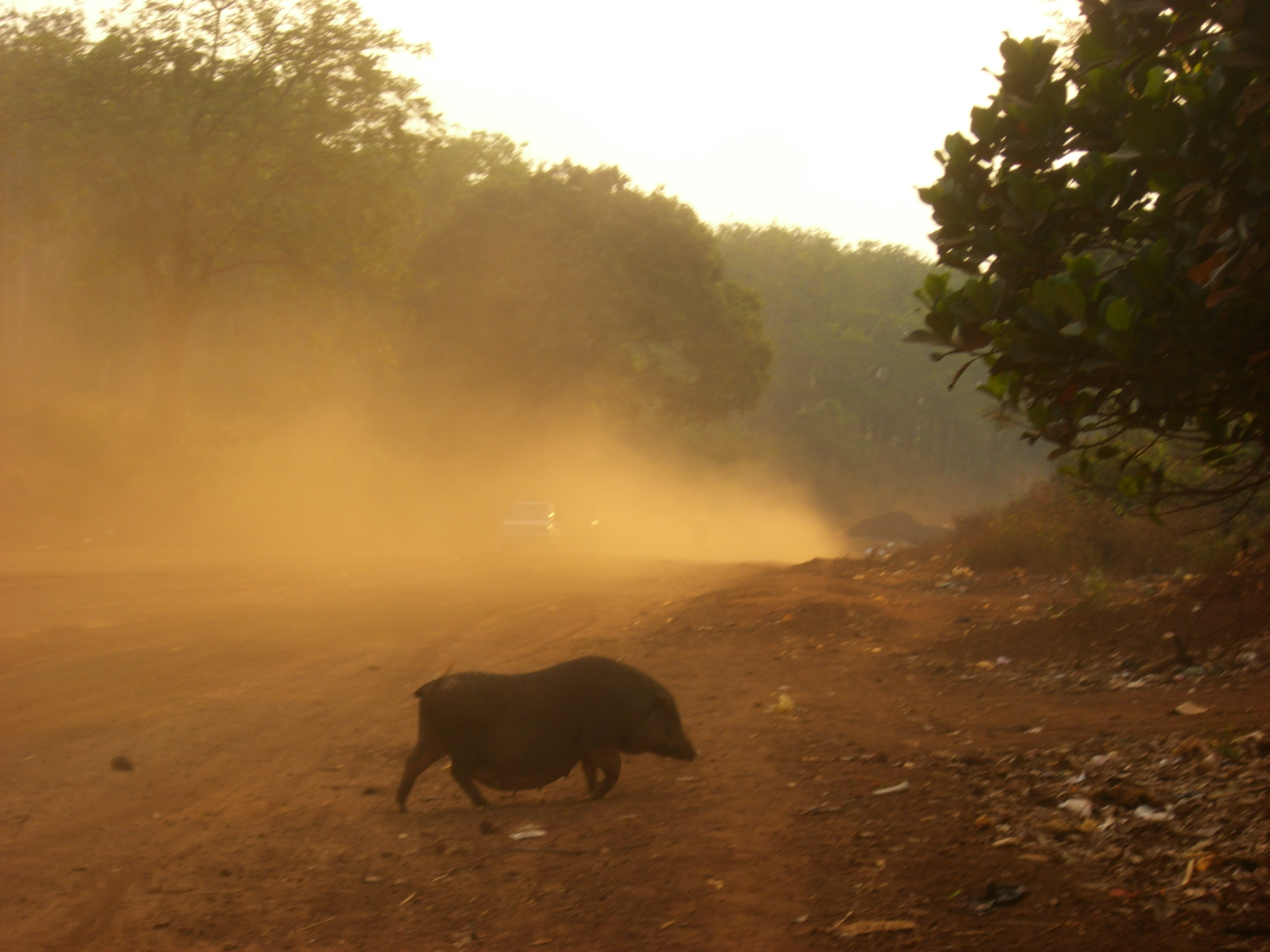 A road outside of Ban Lung. It even gets worse in places where the sand is deep.